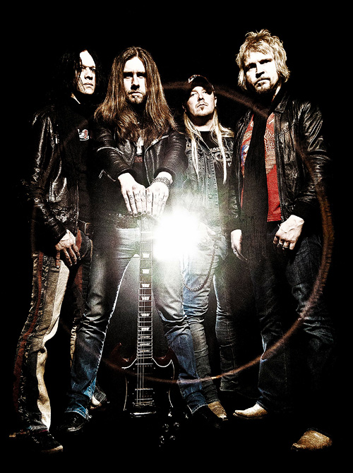 Swedish rock band Bonafide, 2011. From left to right: Martin Ekelund, Pontus Snibb, Niklas Matsson, Mikael Fässberg.